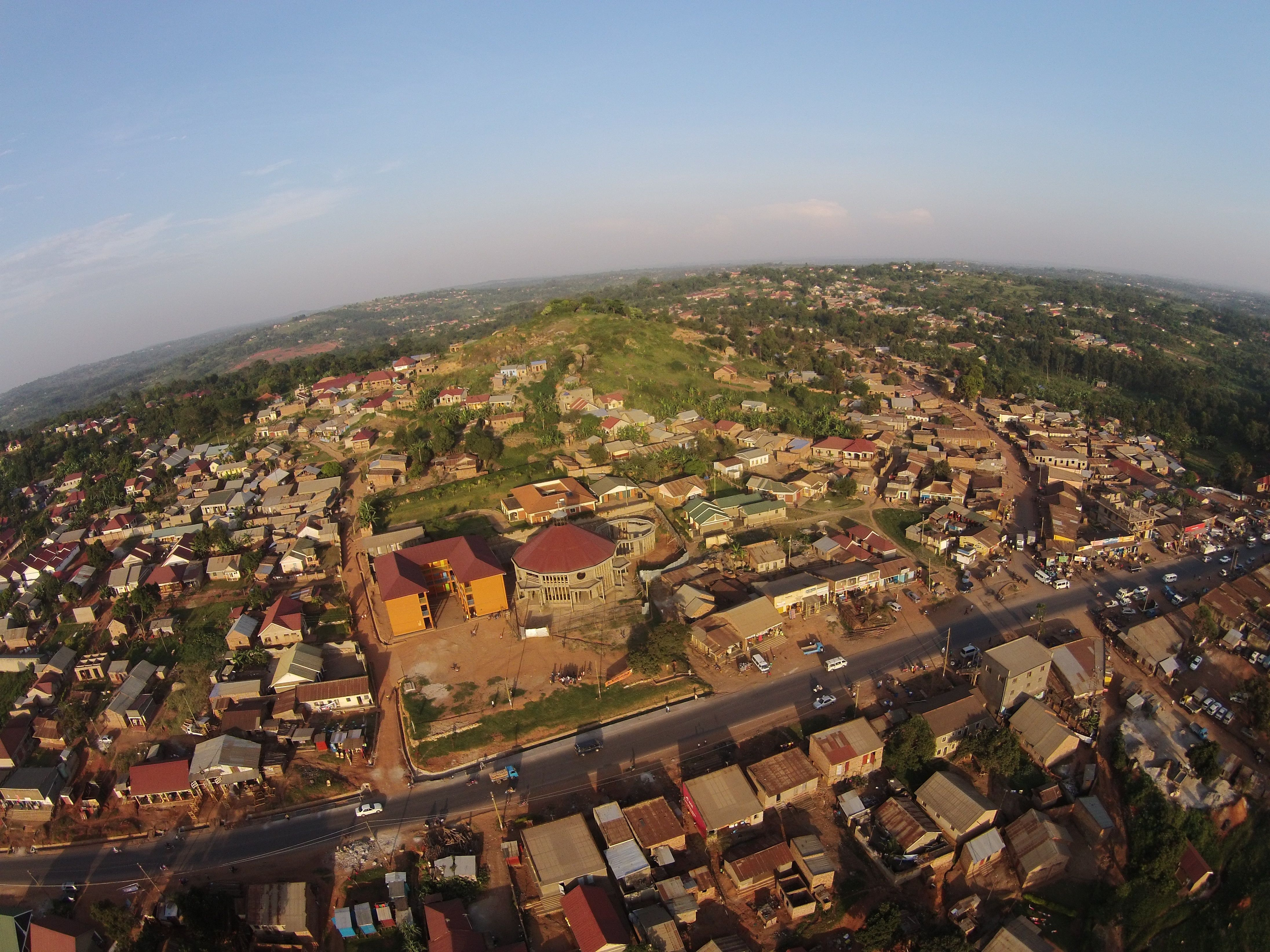 Matugga Hill view